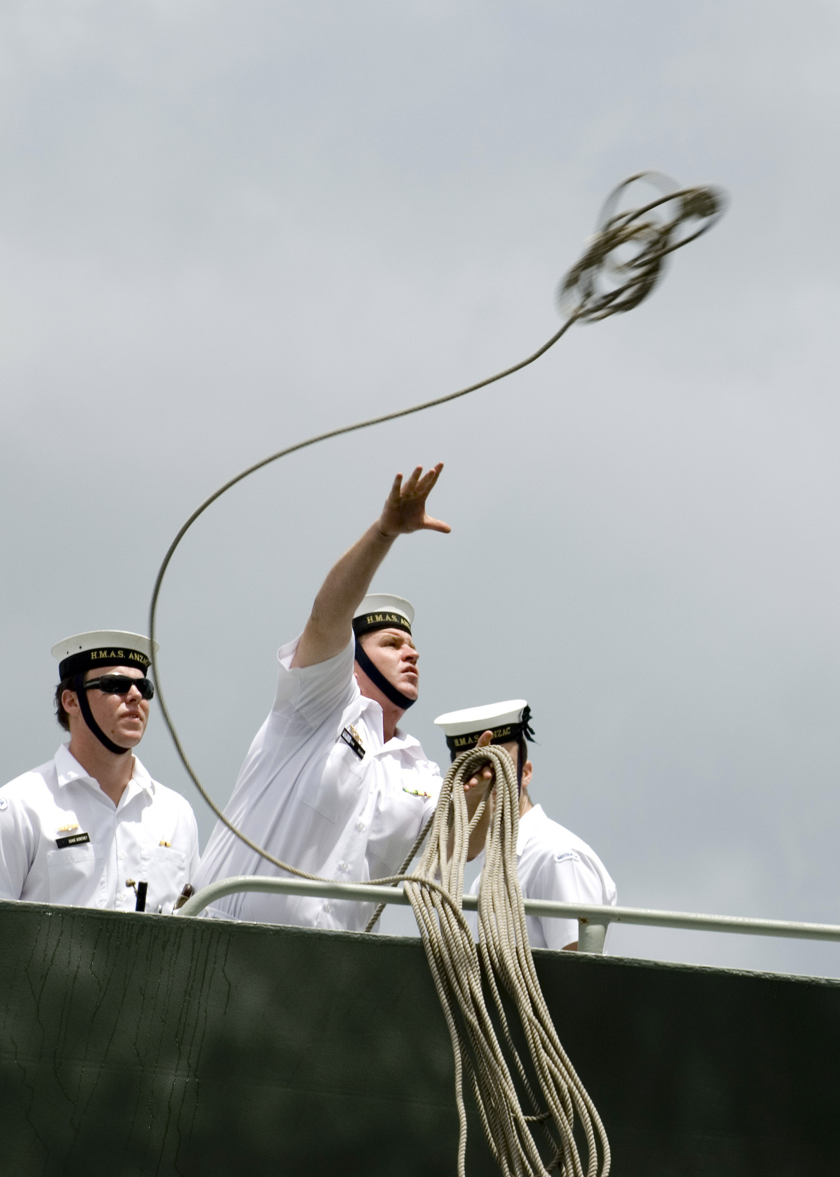 PEARL HARBOR, Hawaii (June 27, 2008) A Sailor aboard the Australian Navy ship HMAS Anzac (FF 150) throws a line to the Australian amphibious ship HMAS Tolbrook (LSH 50) as they arrive at Naval Station Pearl Harbor for this year's Rim of the Pacific (RIMPAC) 2008. RIMPAC is the world's largest multinational exercise and is scheduled biennially by the U.S. Pacific Fleet. Participants include the United States, Australia, Canada, Chile, Japan, the Netherlands, Peru, Republic of Korea, Singapore, and the United Kingdom. U.S. Navy photo by Mass Communication Specialist 2nd Class Paul D. Honnick (Released)